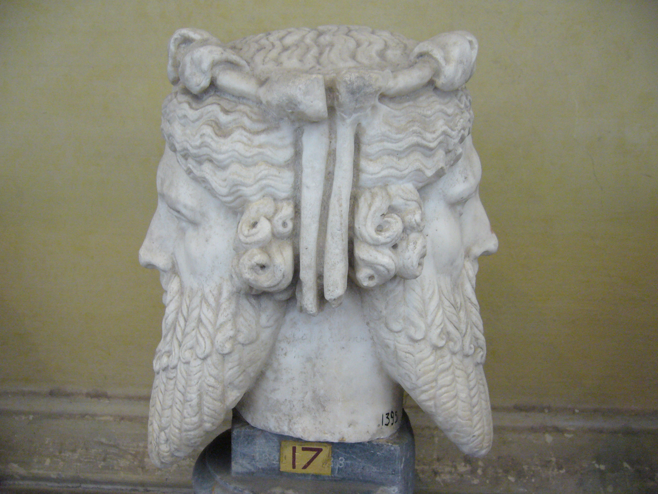 Head of Janus, Vatican museum, Rome